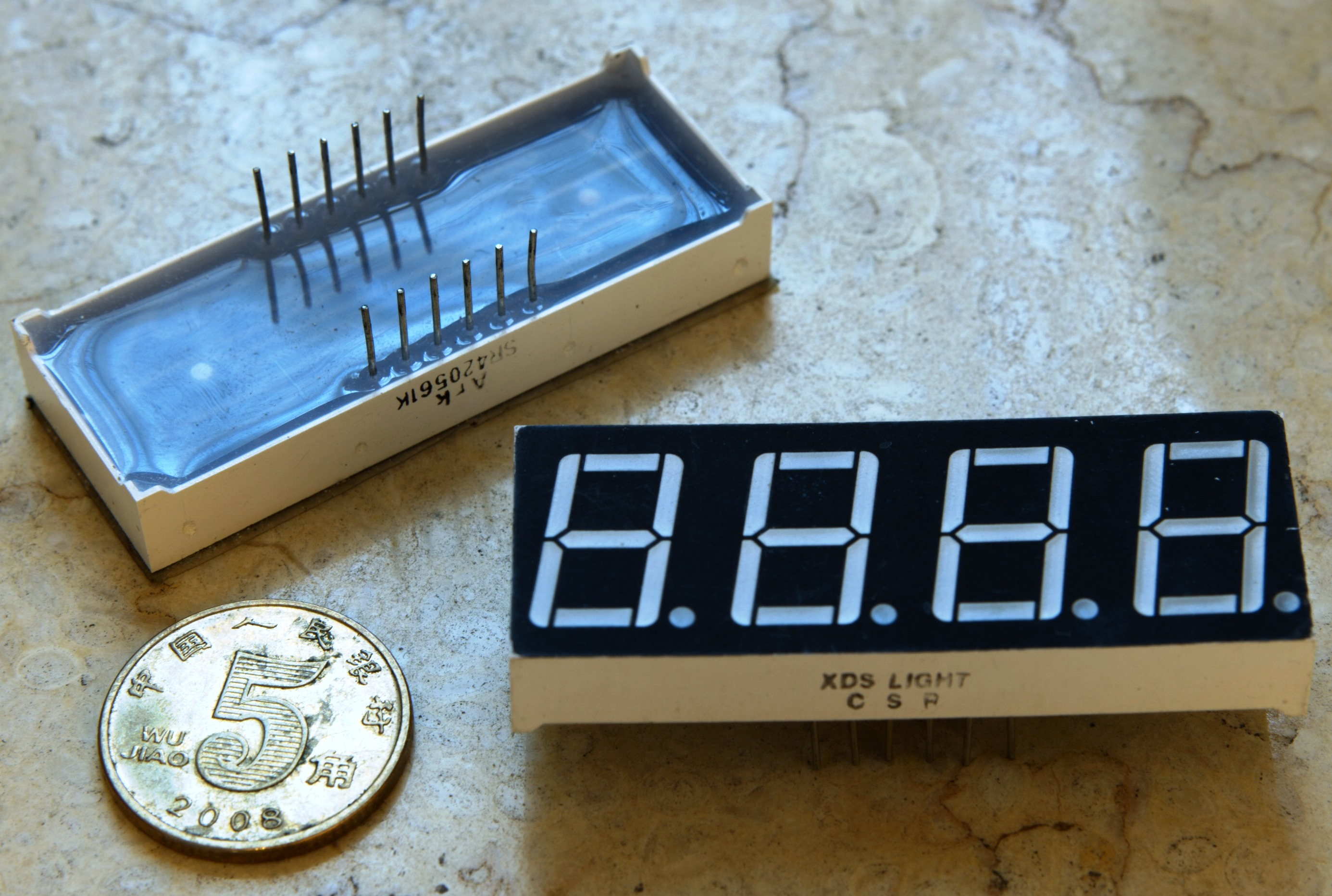 Both sides of LED digital display.